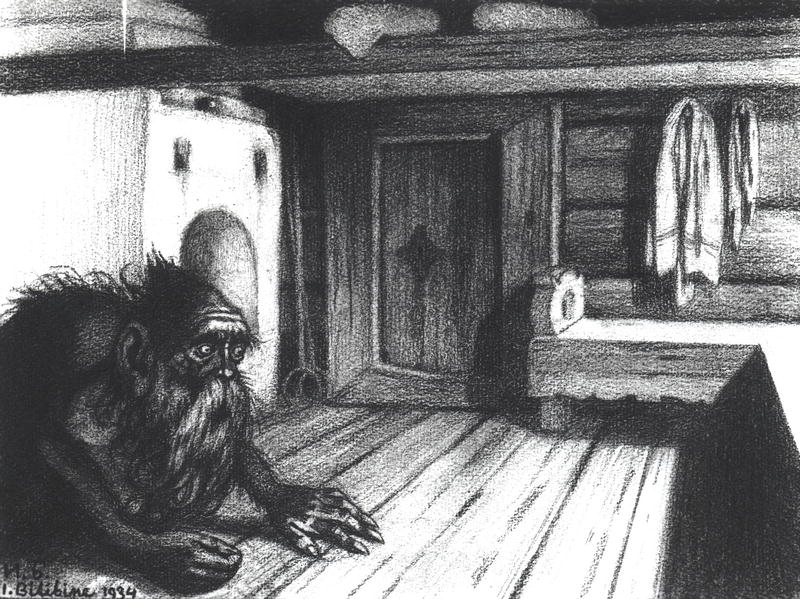 An illustration Domovoi, a spirit of the house.